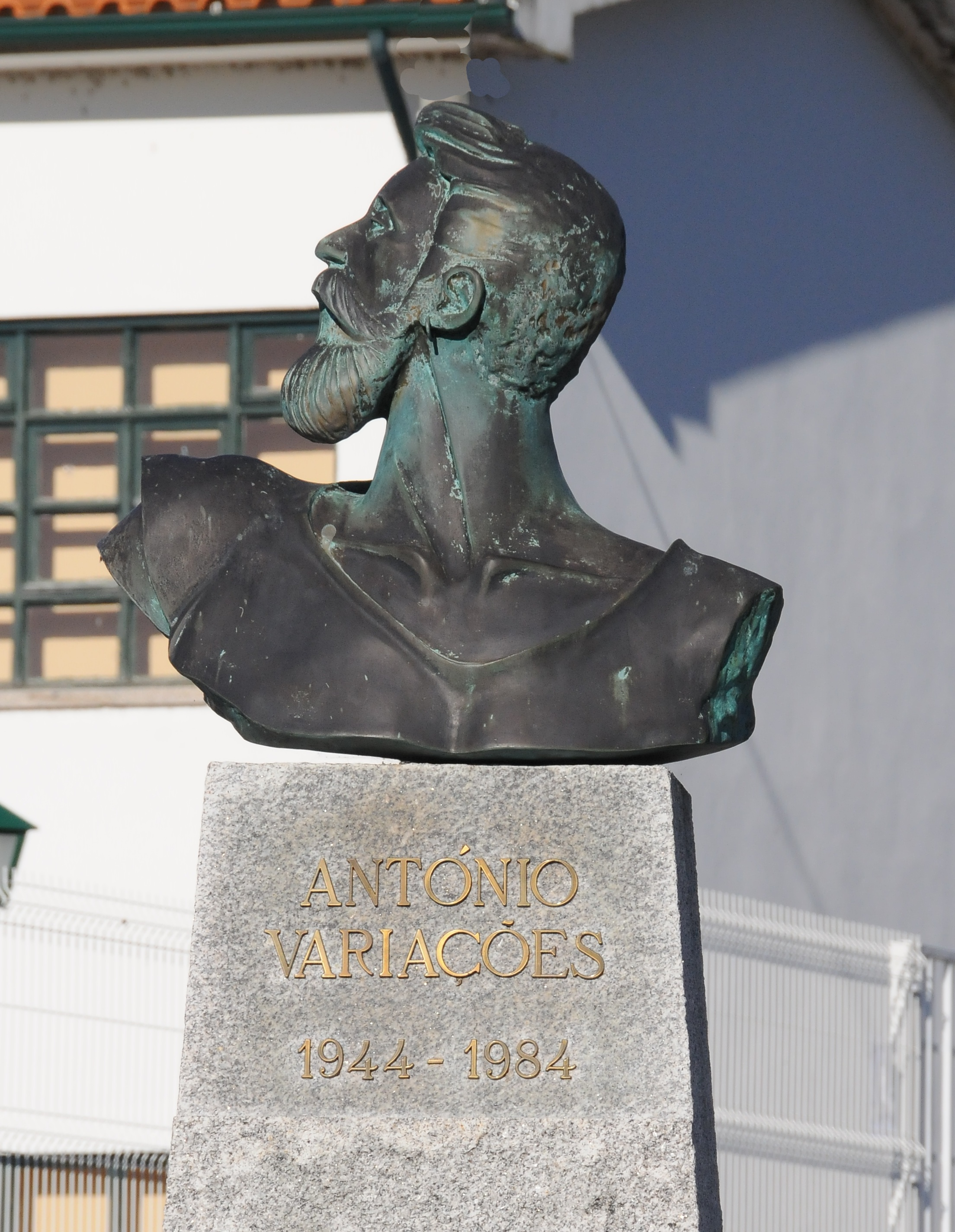 Bust of Antonio Variacoes in Fiscal, Amares Portugal, do escultor Arlindo Fagundes